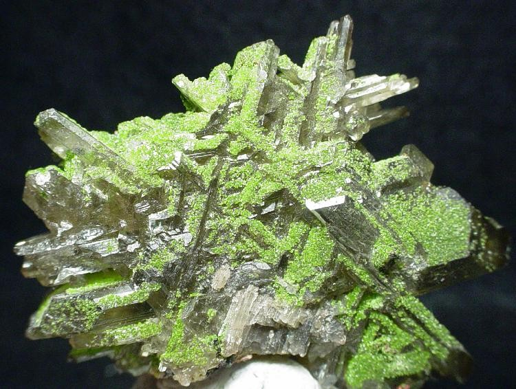 Duftite, Cerussite Locality: Tsumeb Mine (Tsumcorp Mine), Tsumeb, Otjikoto (Oshikoto) Region, Namibia (Locality at ) Size: 6 x 5 x 3 cm. This smoky cerussite is heavily coated by brilliant green microcrystals of duftite on one side, though not at all on the other. Ex. Willy Israel Collection.